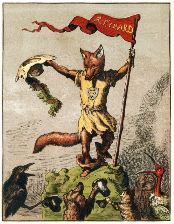 Renart the fox, drawn by Ernest Henri Griset (Q21458528), from a children's book published in 1869. Original image found here, apparently an online museum catalog. Image cropped, deskewed, and corrected for yellowing and fading from photo of book.